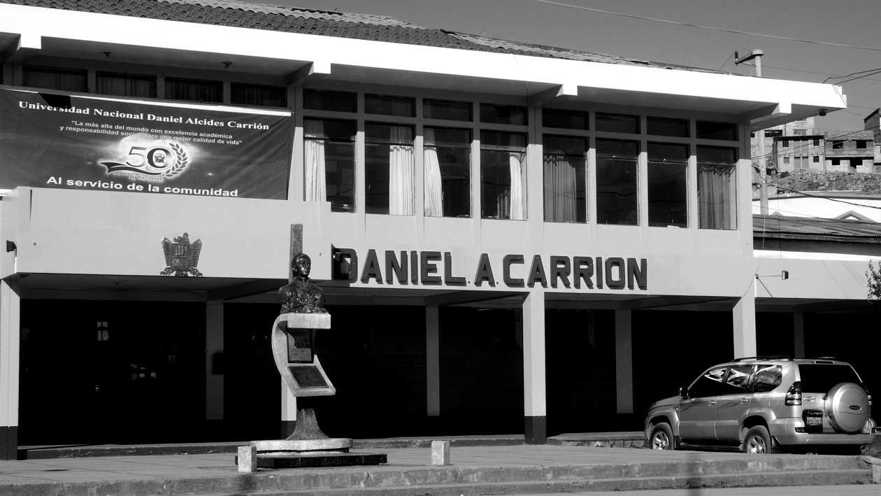 UNDAC administration building in San Juan, Cerro de Pasco, Peru.